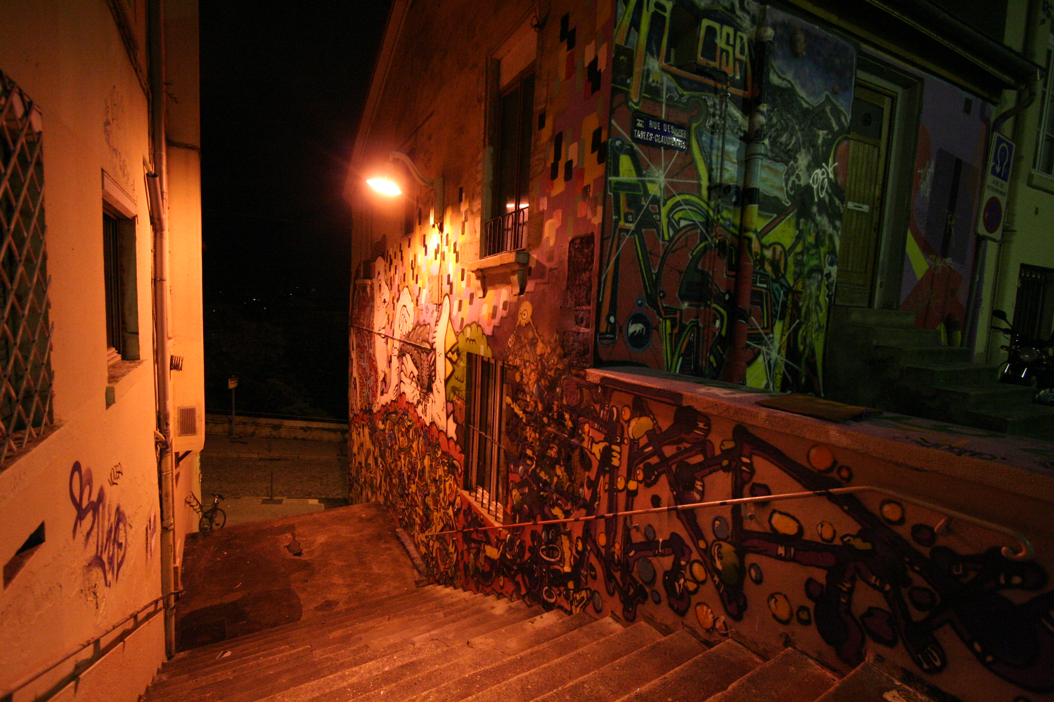 Tables-Claudiennes Street, Lyon, France